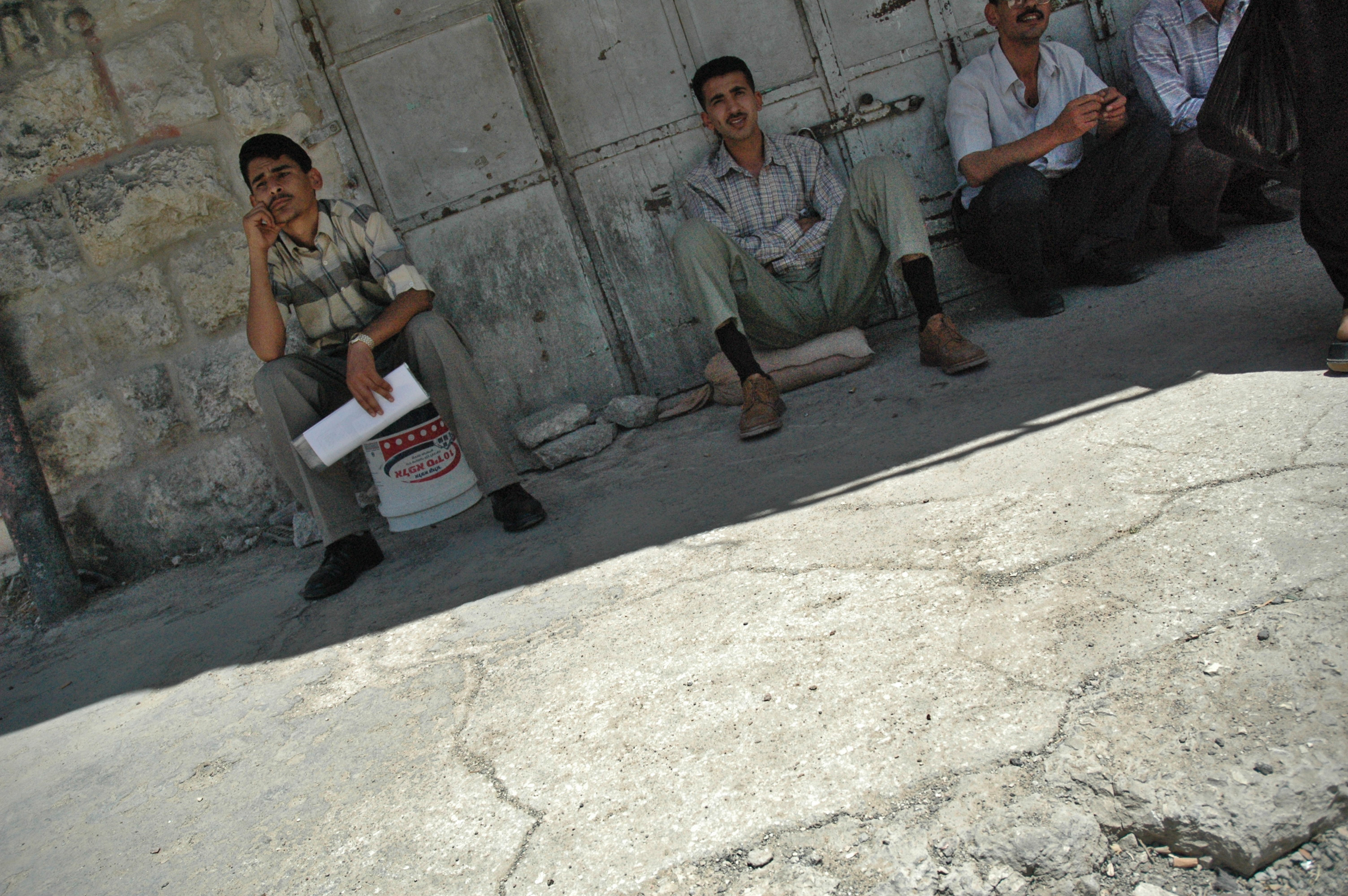 Hebron. Palestinian men detained at a checkpoint in the old city. I was warned not to take pictures here.(shot from the hip)